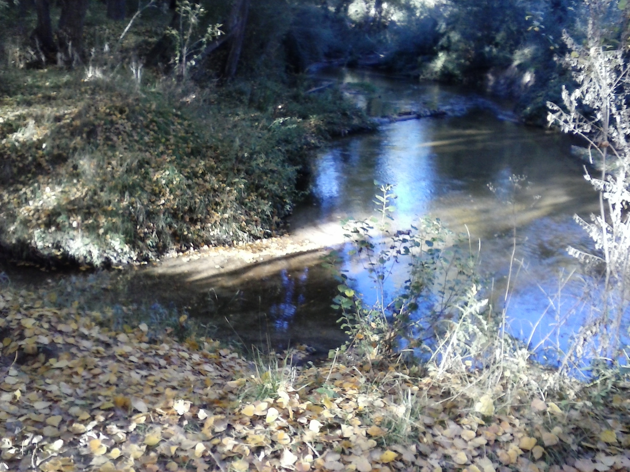 confluence of River Arevalillo - Adaja (Arévalo)